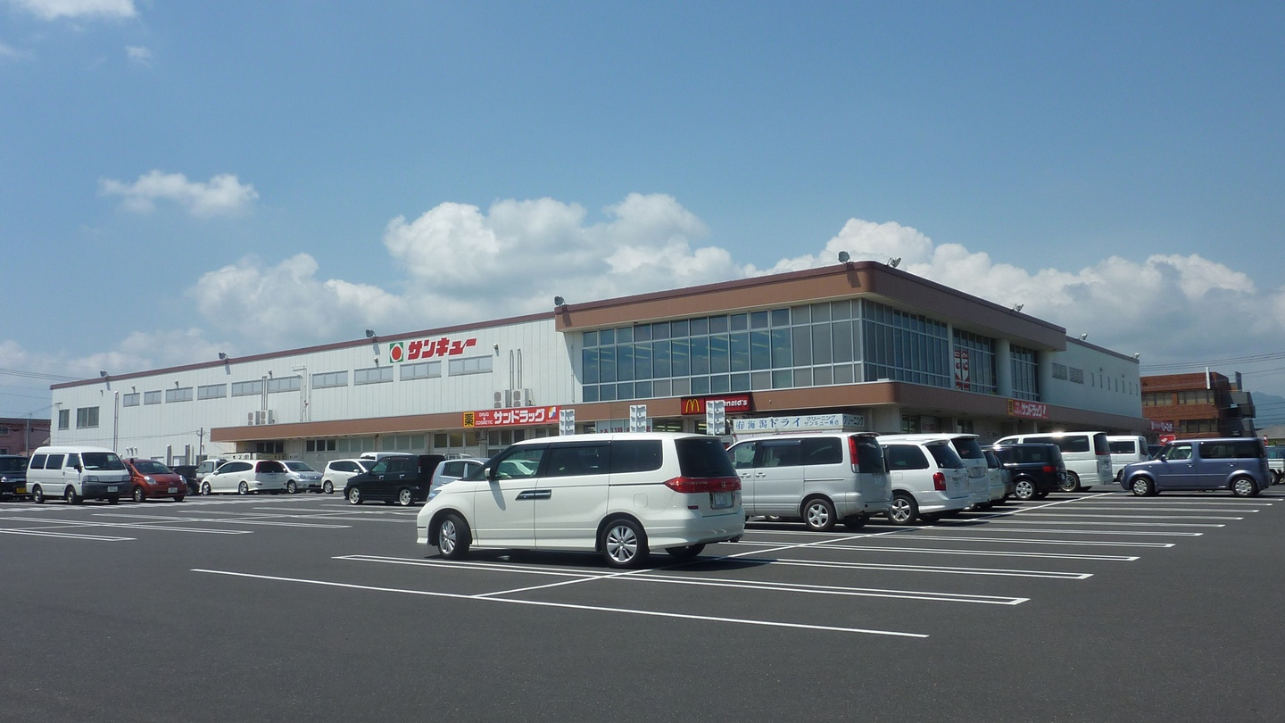 Thank you Kotobuki Store (a Supermarket in Kanoya City, Kagoshima, Japan)